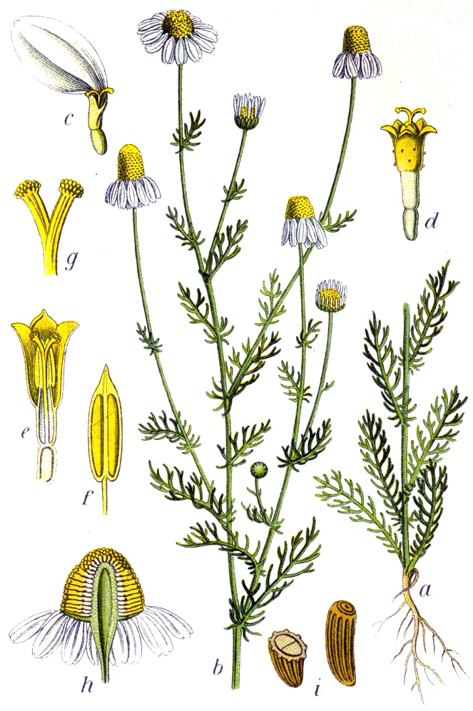 FloraWeb.de: Echte Kamille, Matricaria recutita L. Unresolved name: Chamaemelum chamomilla (L.) E.H.L.Krause Original Description Echte Kamille, Chamaemelum chamomilla